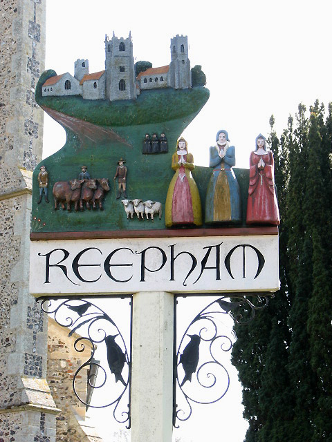 Picture of village sign at Reepham